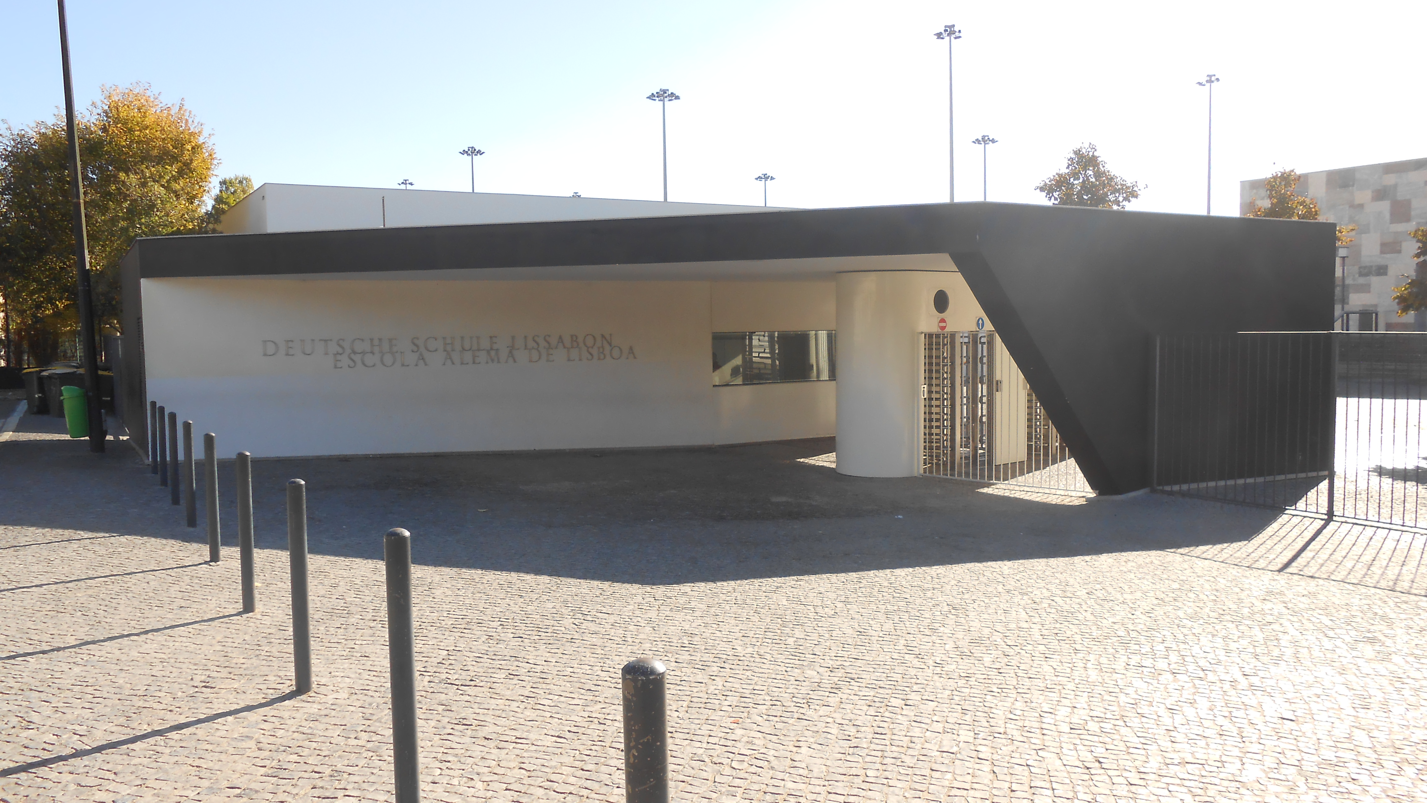 The german school in Telheiras, a neighbourhood in Lisbon.